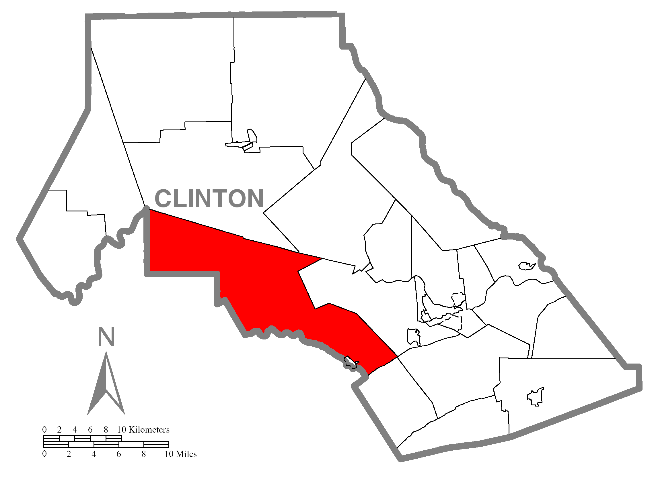 A map of Clinton County showing Beech Creek Township, Pennsylvania (alternate) highlighted on the map.